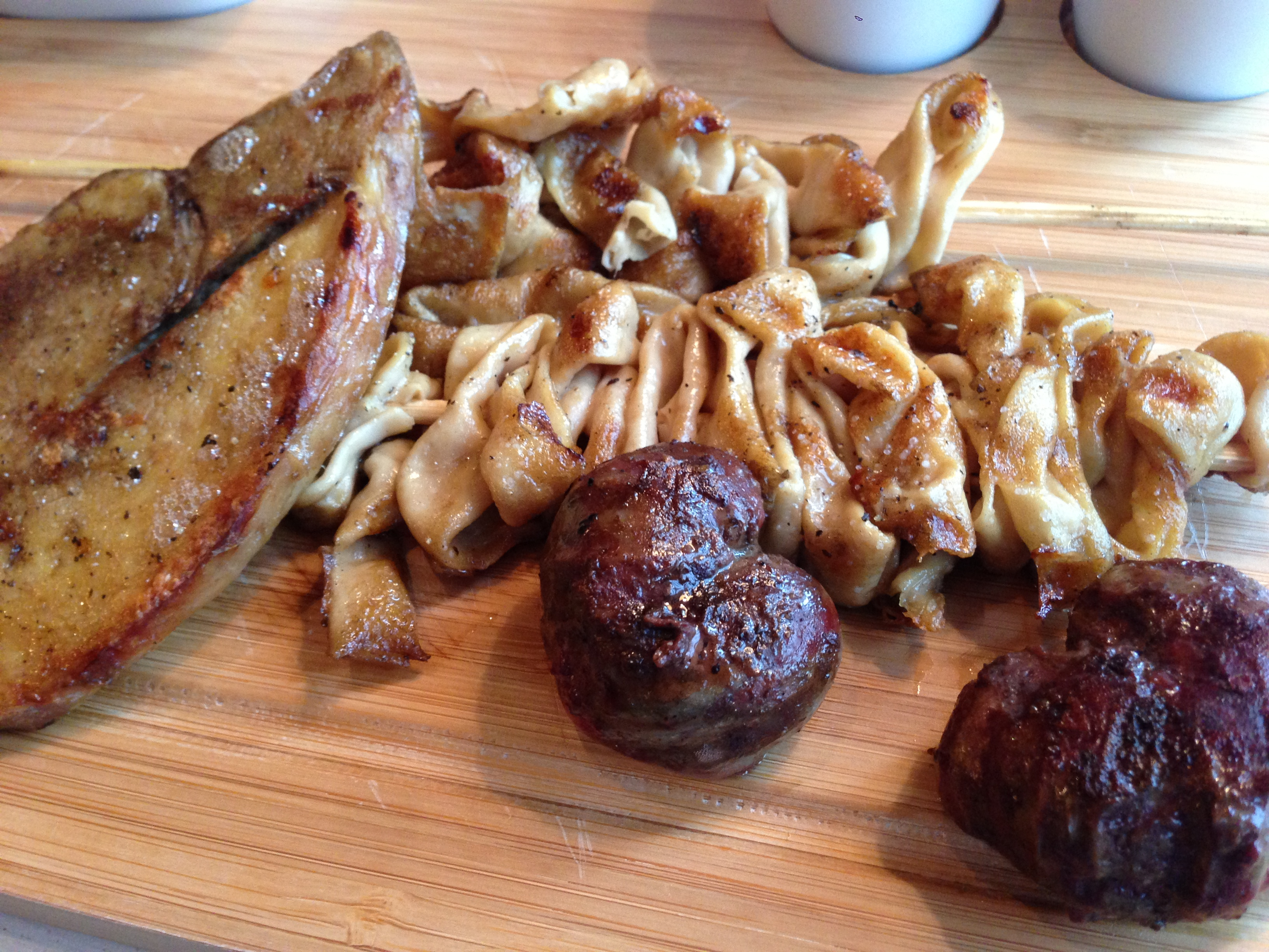 Grilled calf’s offal served at an Argentinian restaurant in Moscow